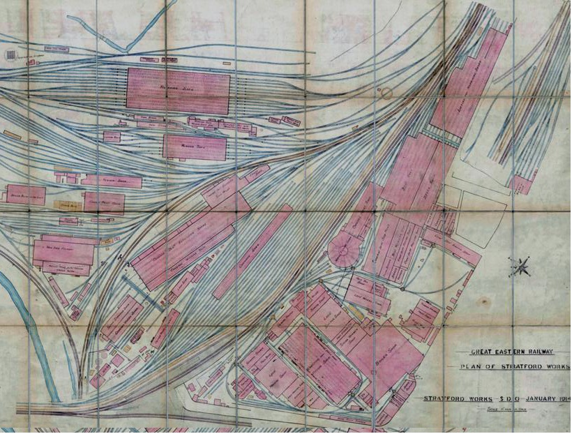 This is a plan of railways in the Stratford area (London) in 1914